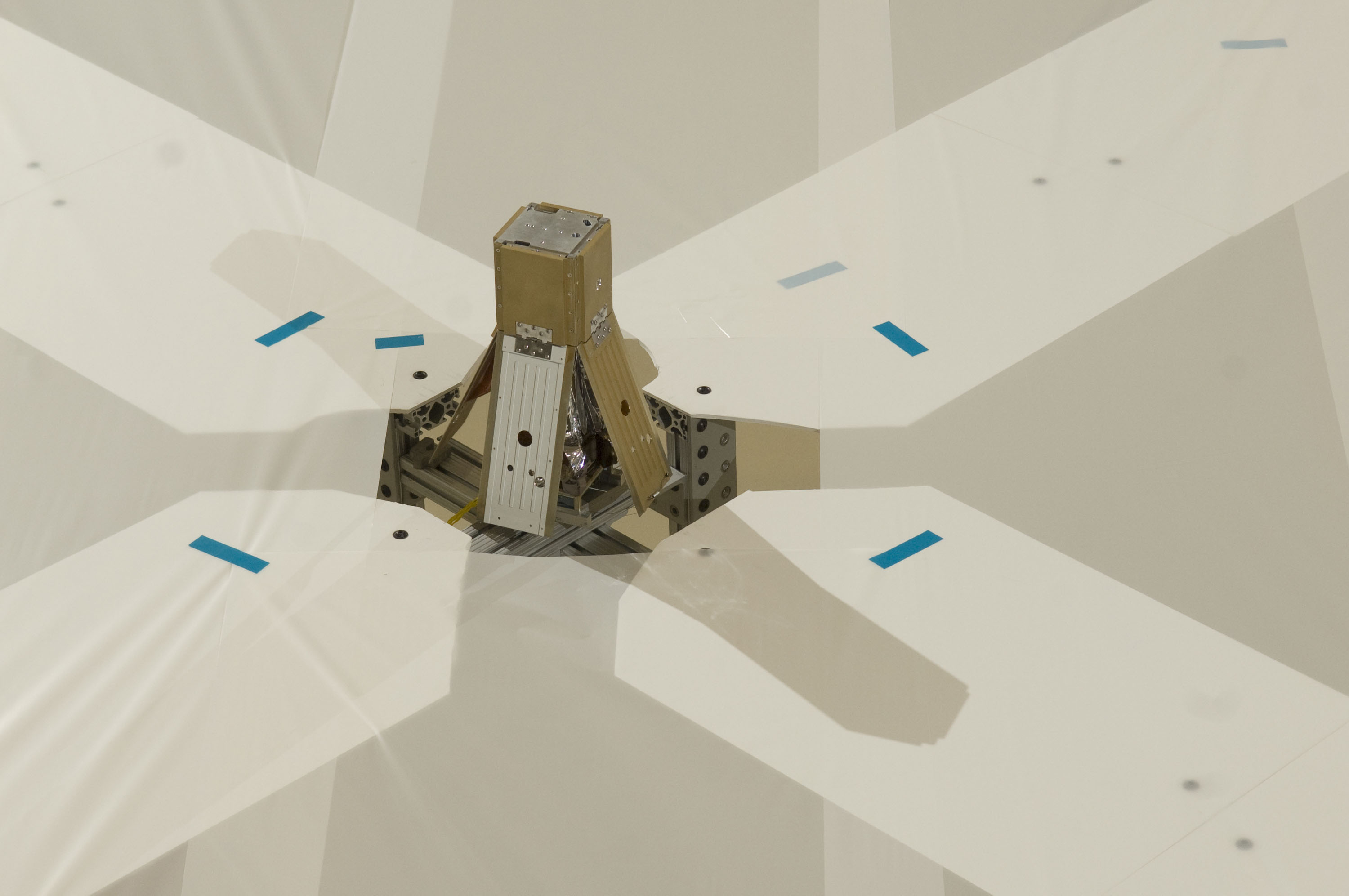 NanoSail-D deployment, part 1: Shortly after launch, NanoSail-D will be ejected from the launch vehicle. Three days into flight, the spacecraft will open four hinged doors, allowing the square sail to deploy.